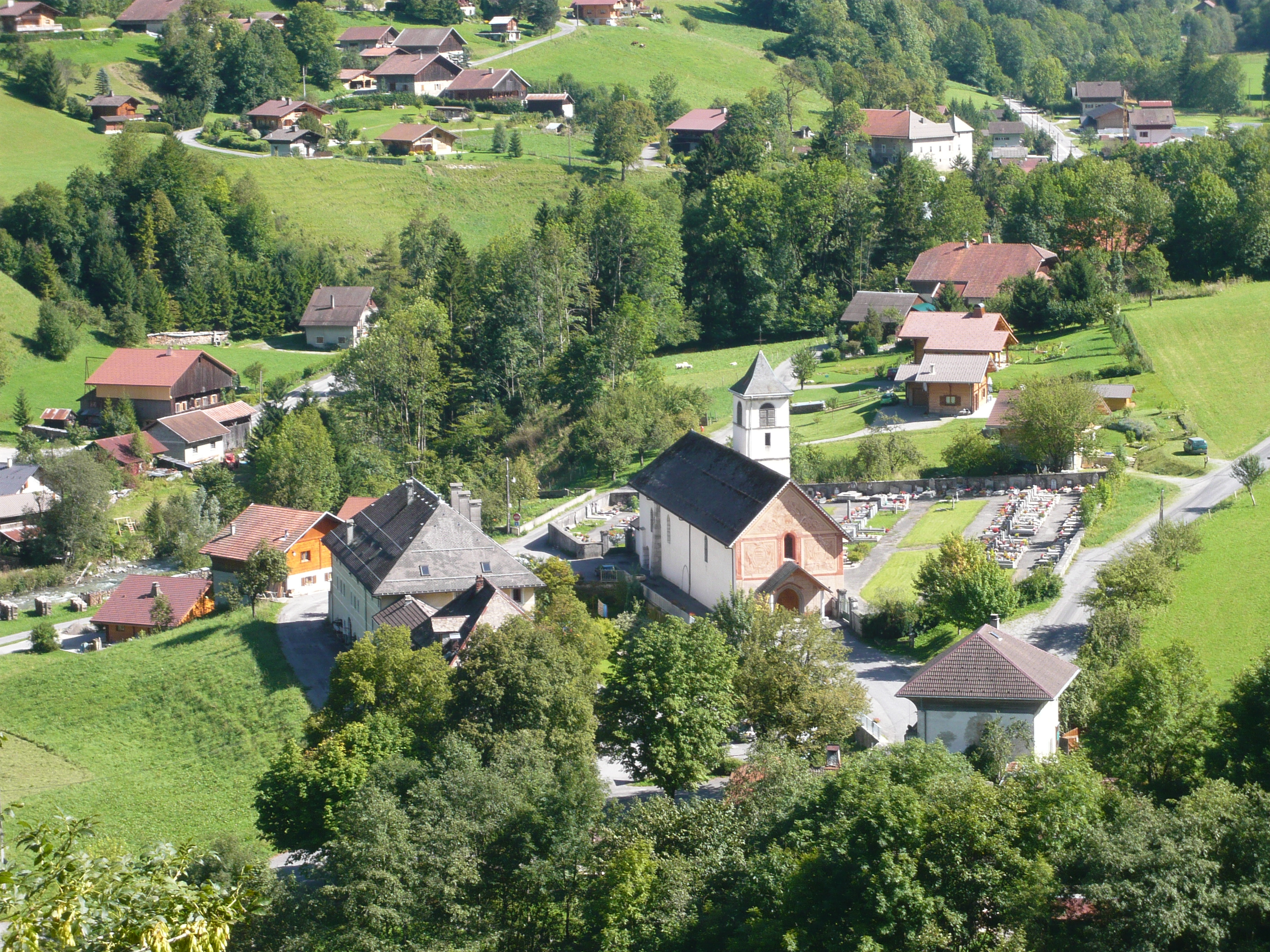 The town of Entremont, Haute-Savoie, France.